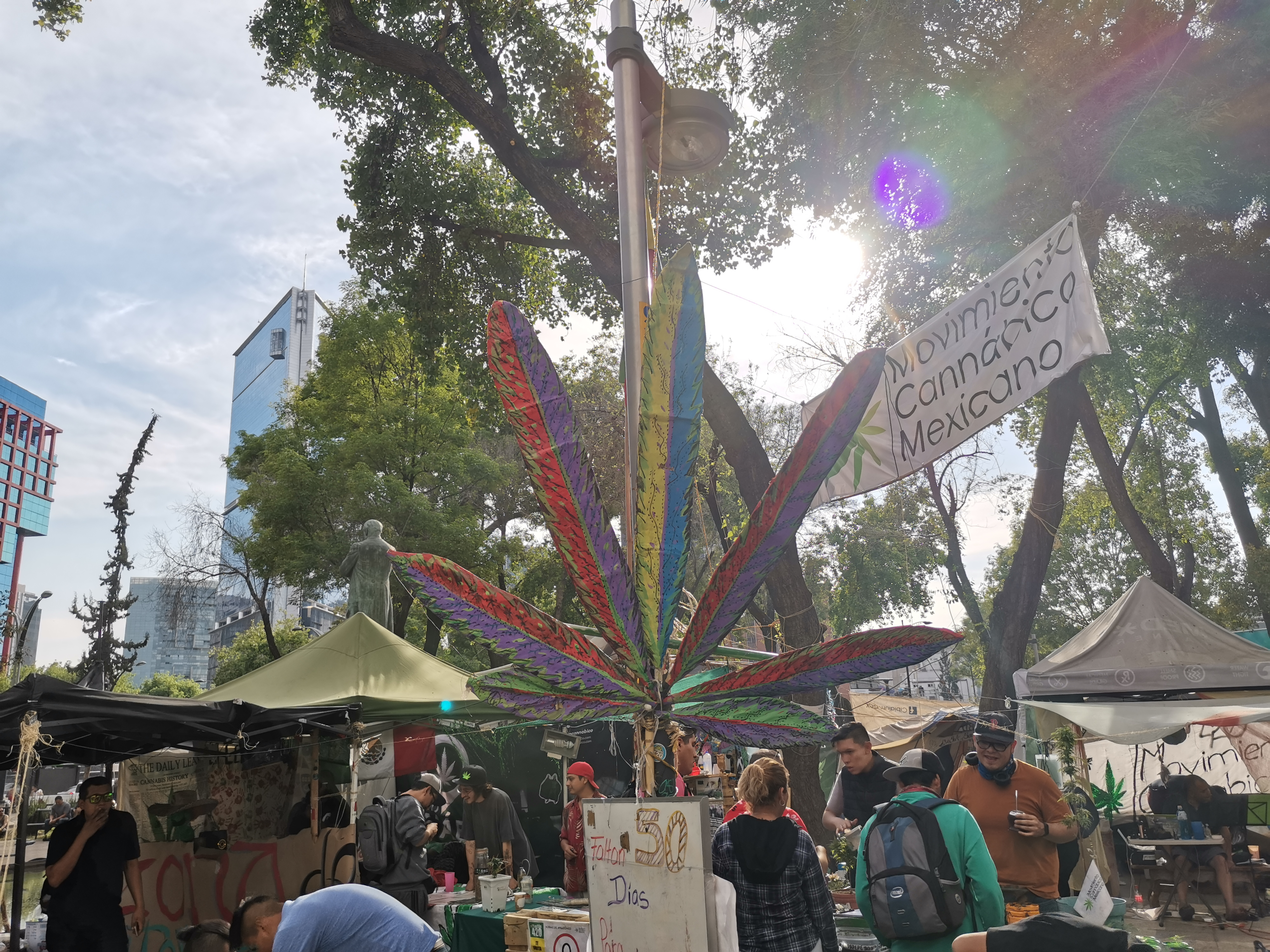 Cannabis camp in front of the Mexican Senate, Mexico City.